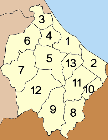 Map of Narathiwat province with the districts (Amphoe) numbered Mueang Narathiwat Tak Bai Bacho Yi-ngo Ra-ngae Rueso Si Sakhon Waeng Sukhirin Su-ngai Kolok Su-ngai Padi Chanae Cho-airong